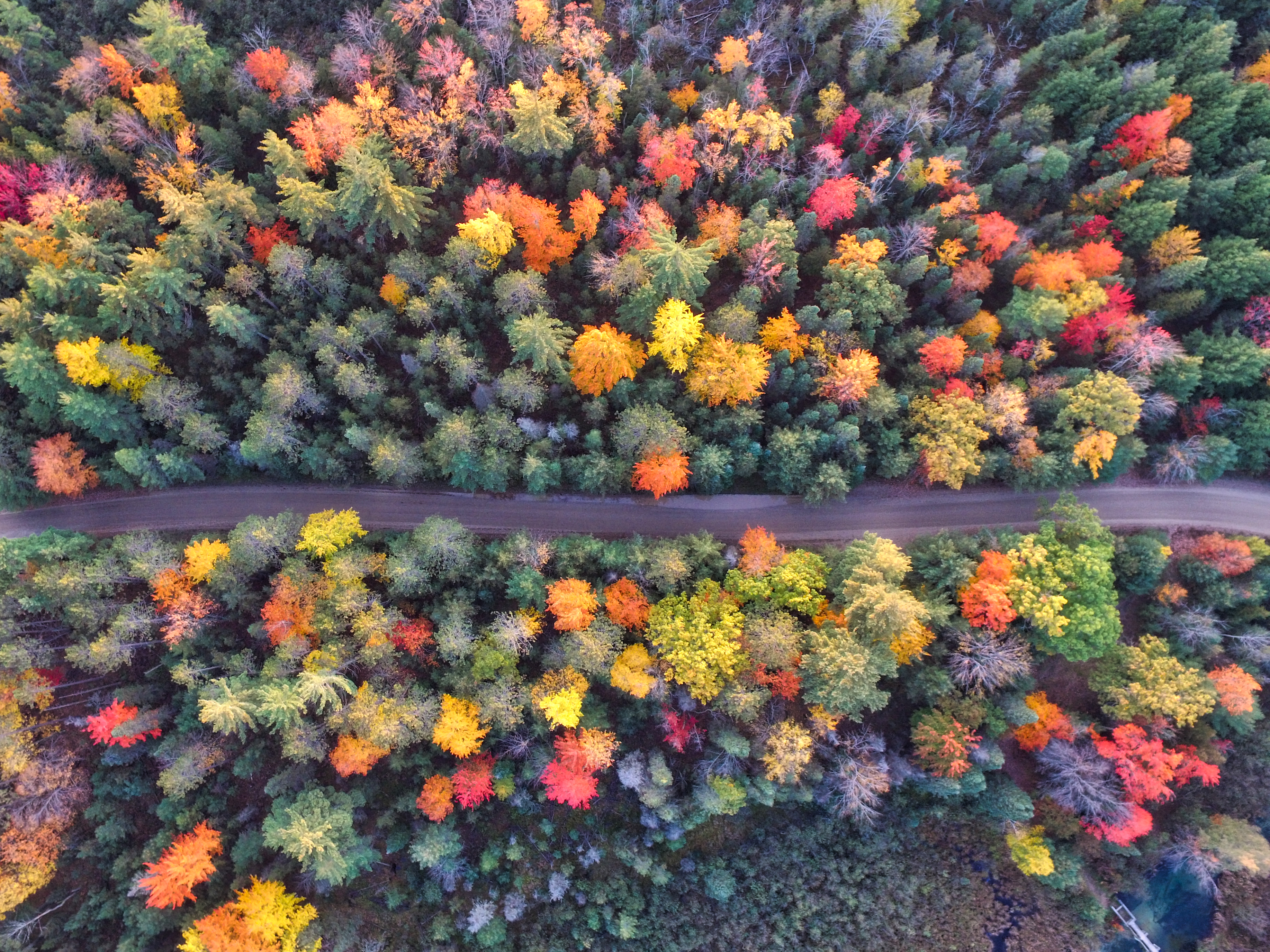 Grayling, United States